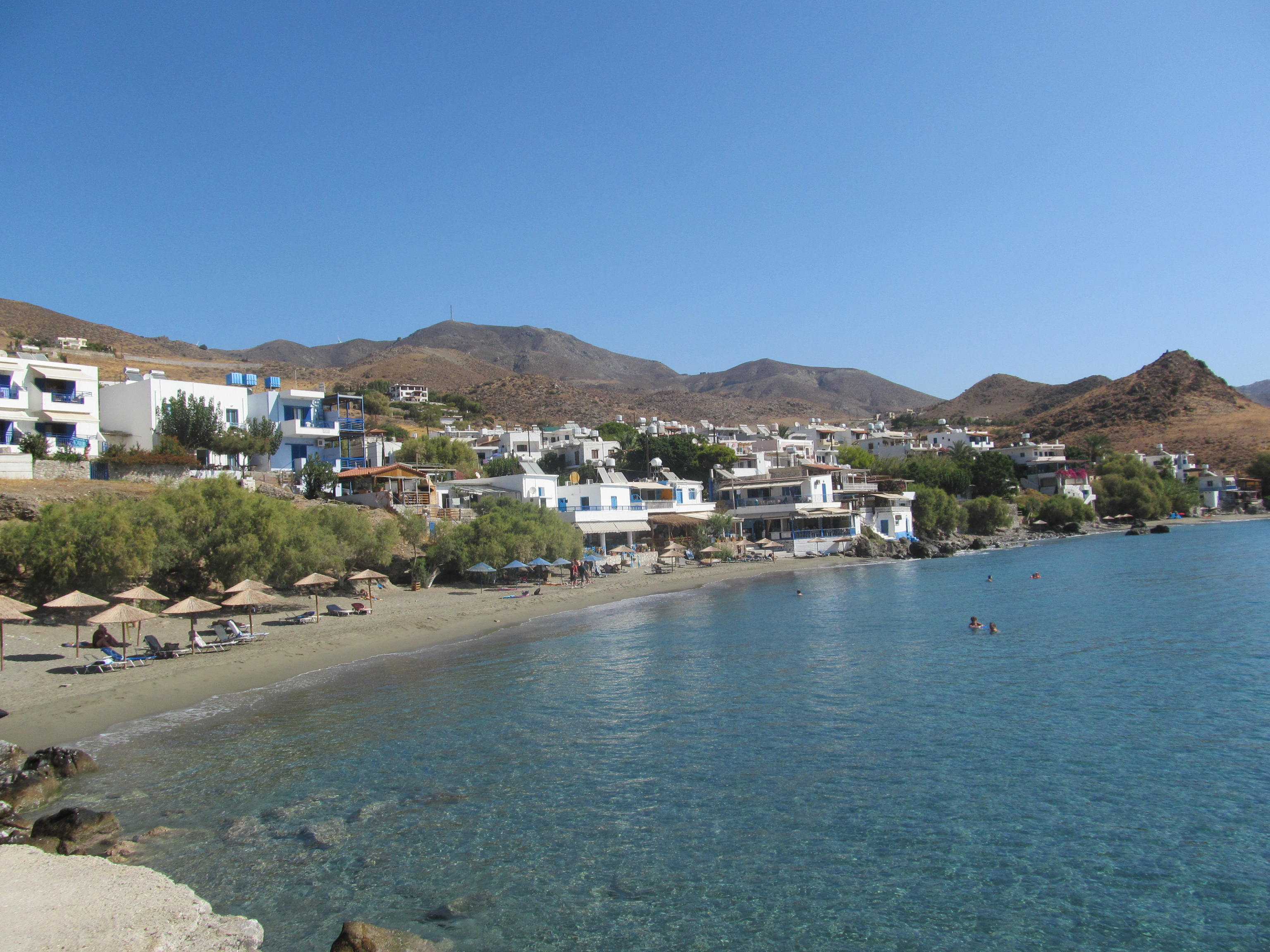 Lentas bay